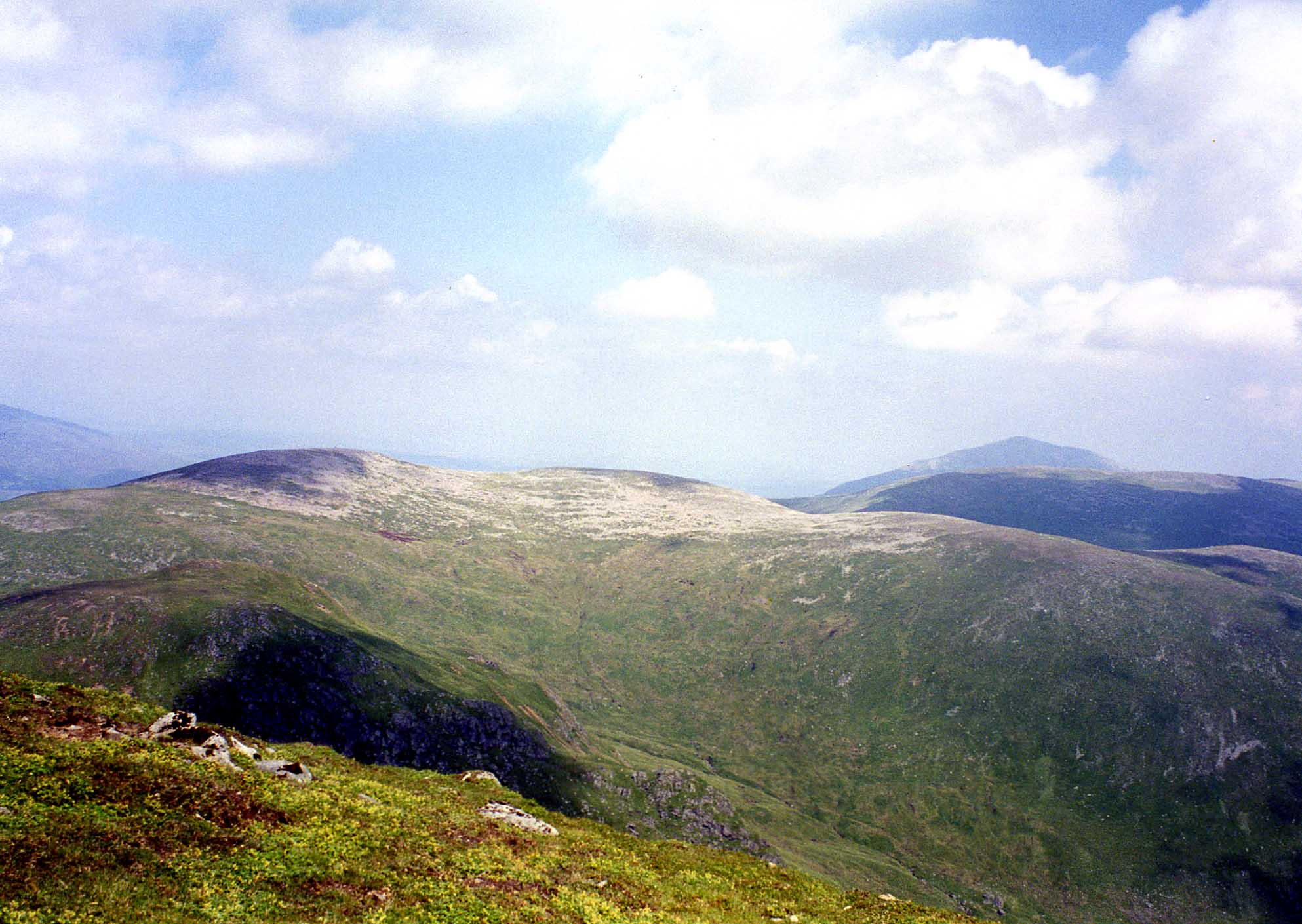 Personal picture taken by Mick Knapton